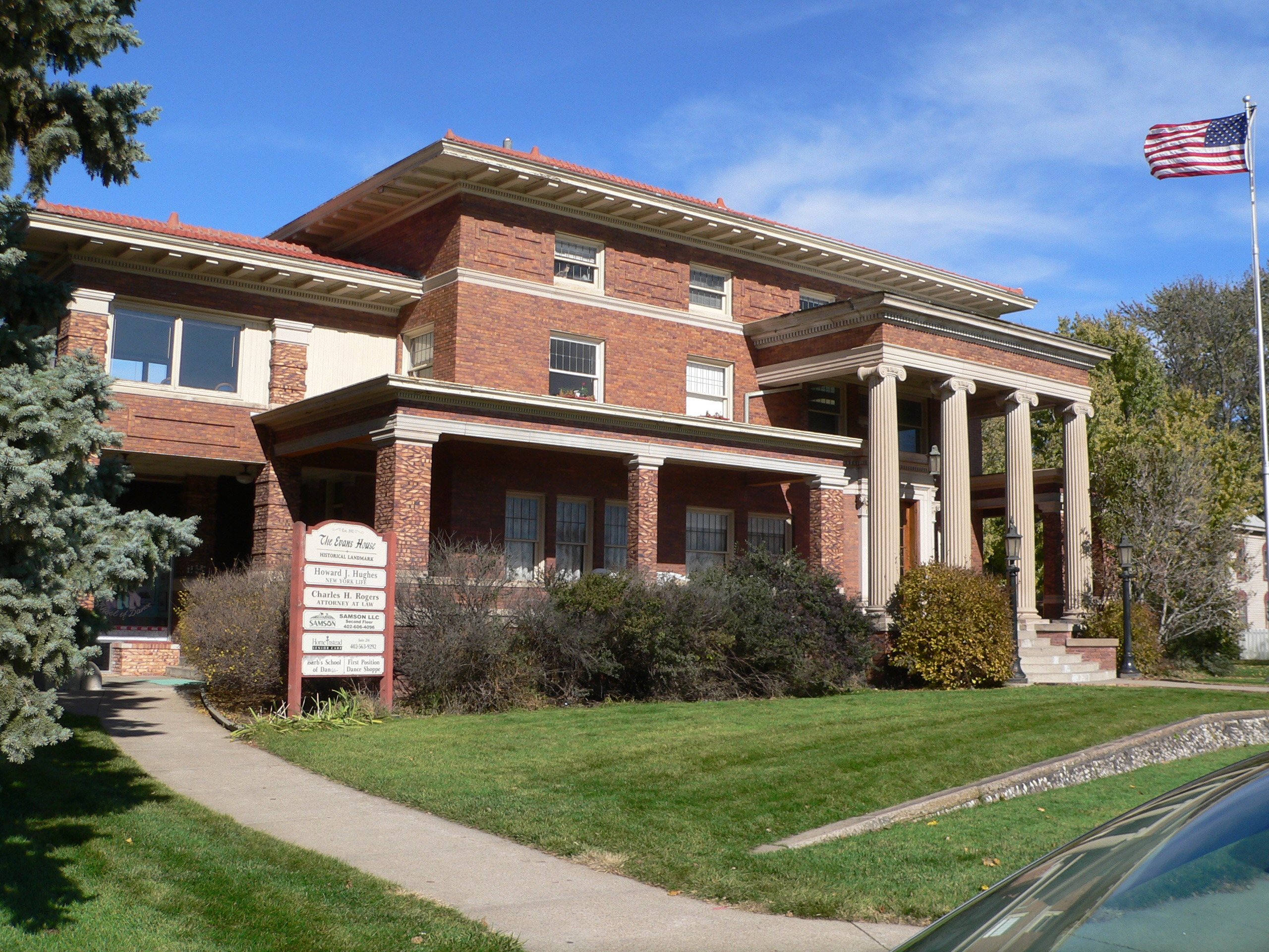 The Dr. Carroll D. and Lorena R. North Evans House at 2204 14th St in Columbus, Nebraska. The building was constructed in 1908 and is on the National Register of Historic Places. It is now occupied by several businesses.